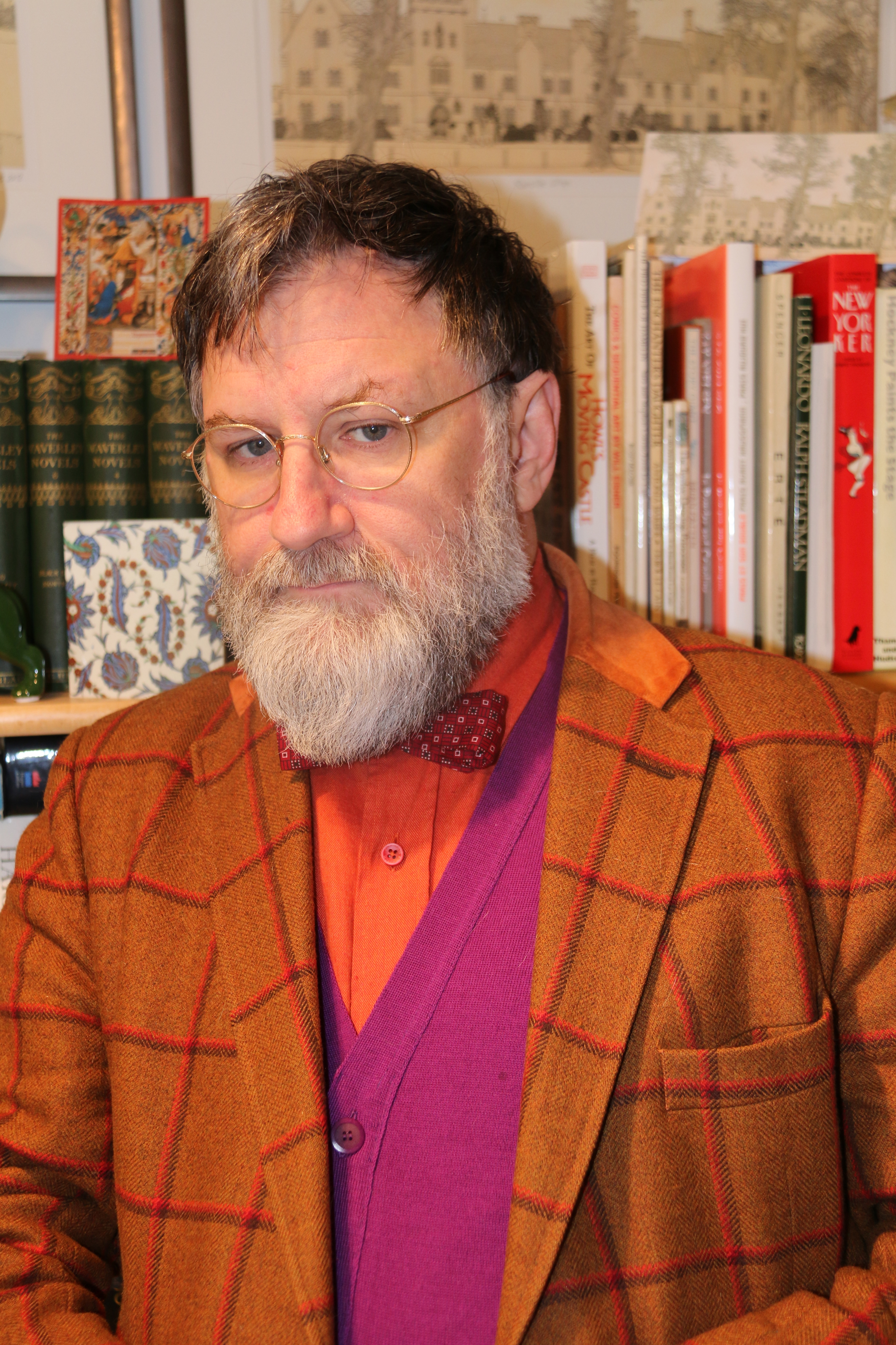 tim wilson